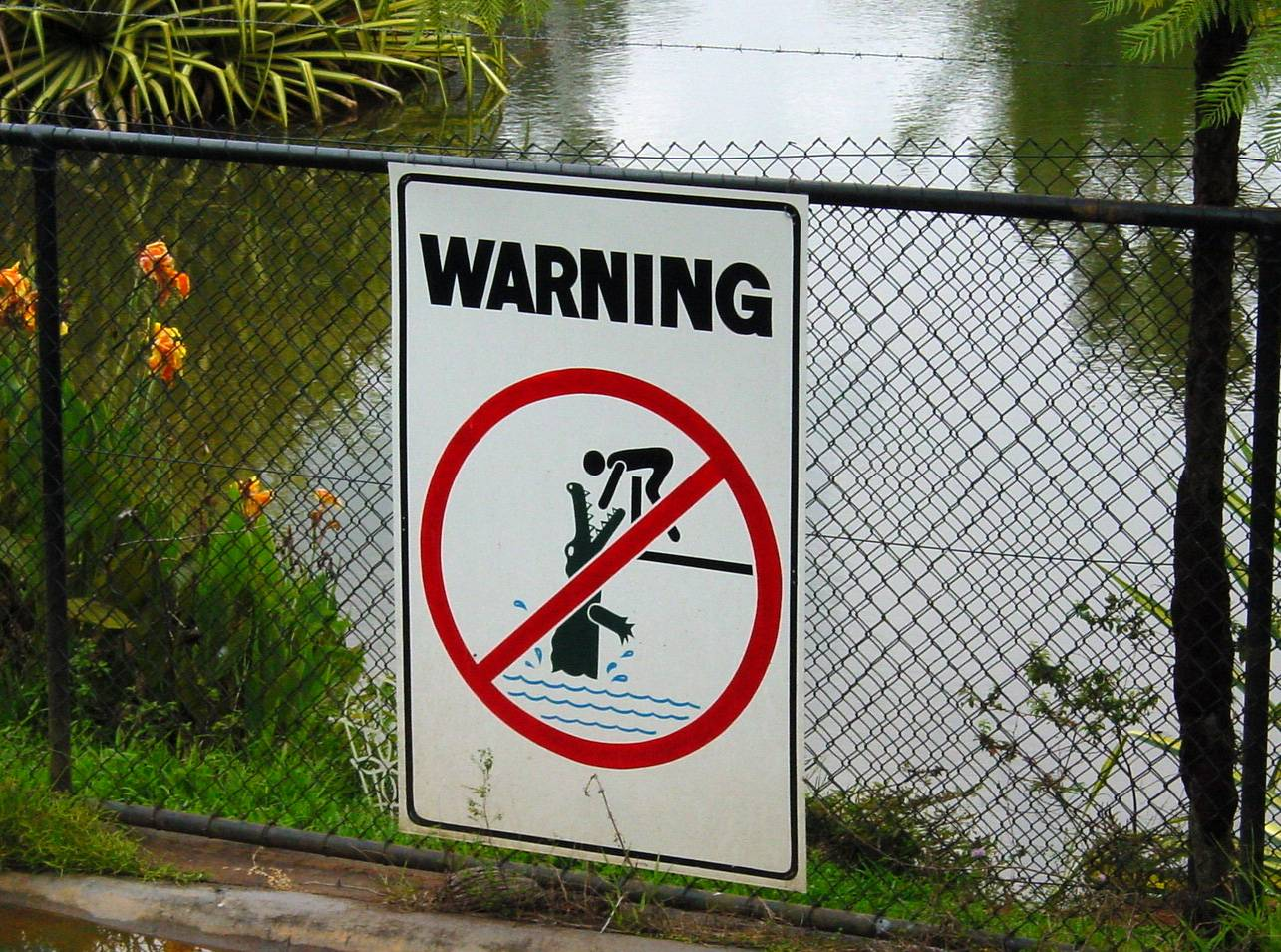 Warning sign for crocodiles in Australia